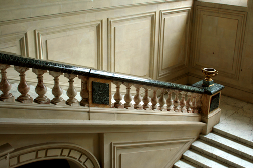 The Grand Marble Staircase at Mentmore Towers.